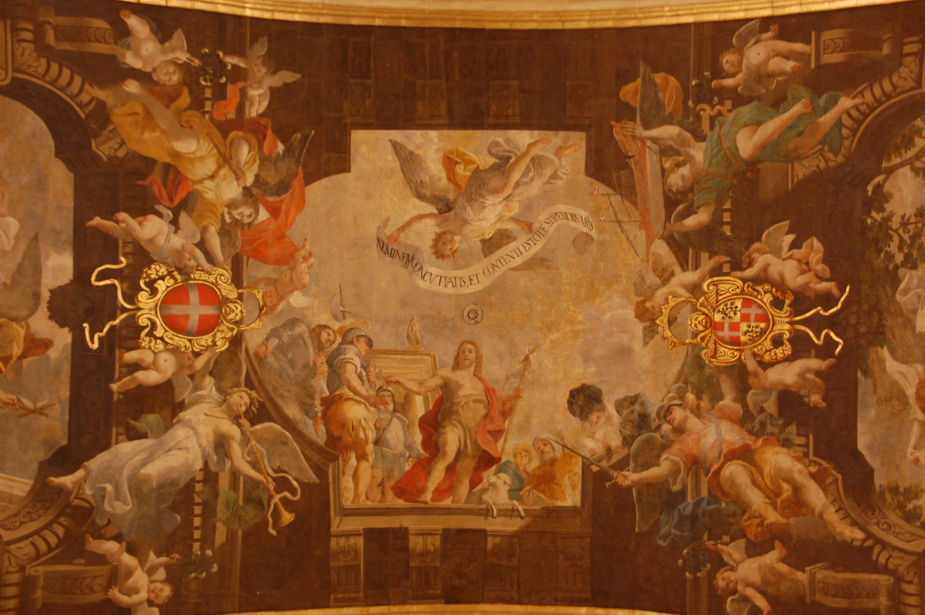 Detail from St John's Co-Cathedral, Valletta, Malta